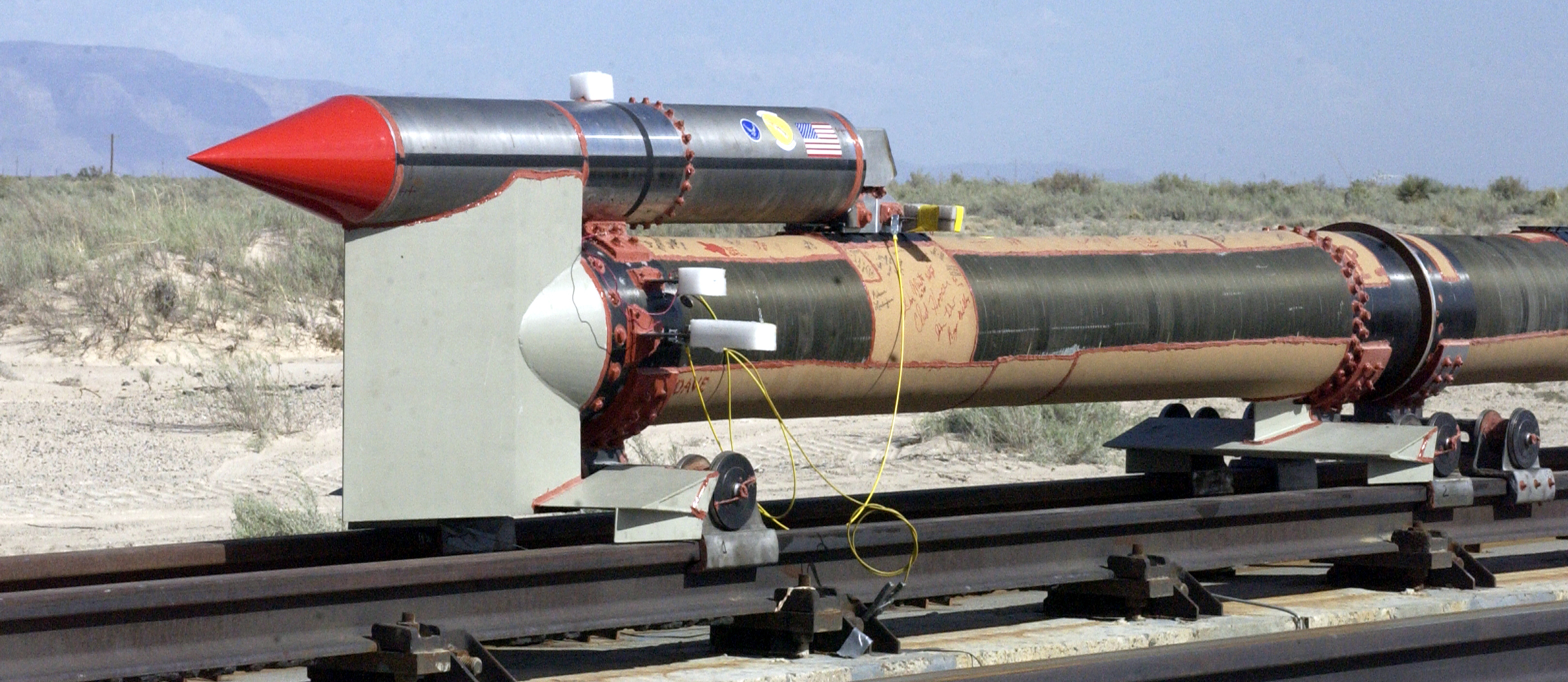 Picture of rocket sled that achieved Mach 8.5